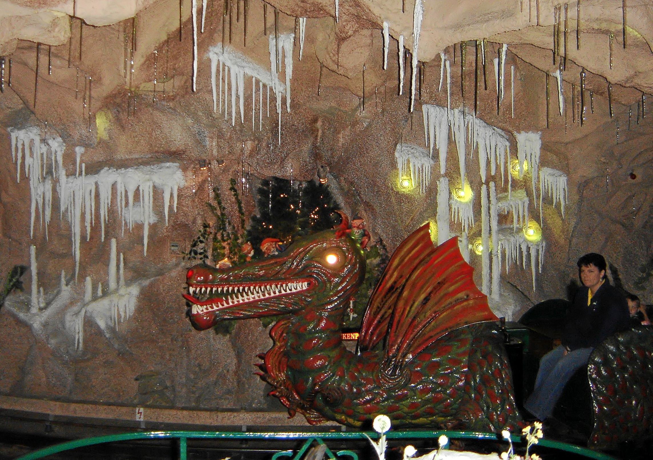 The Grottenbahn arrives.